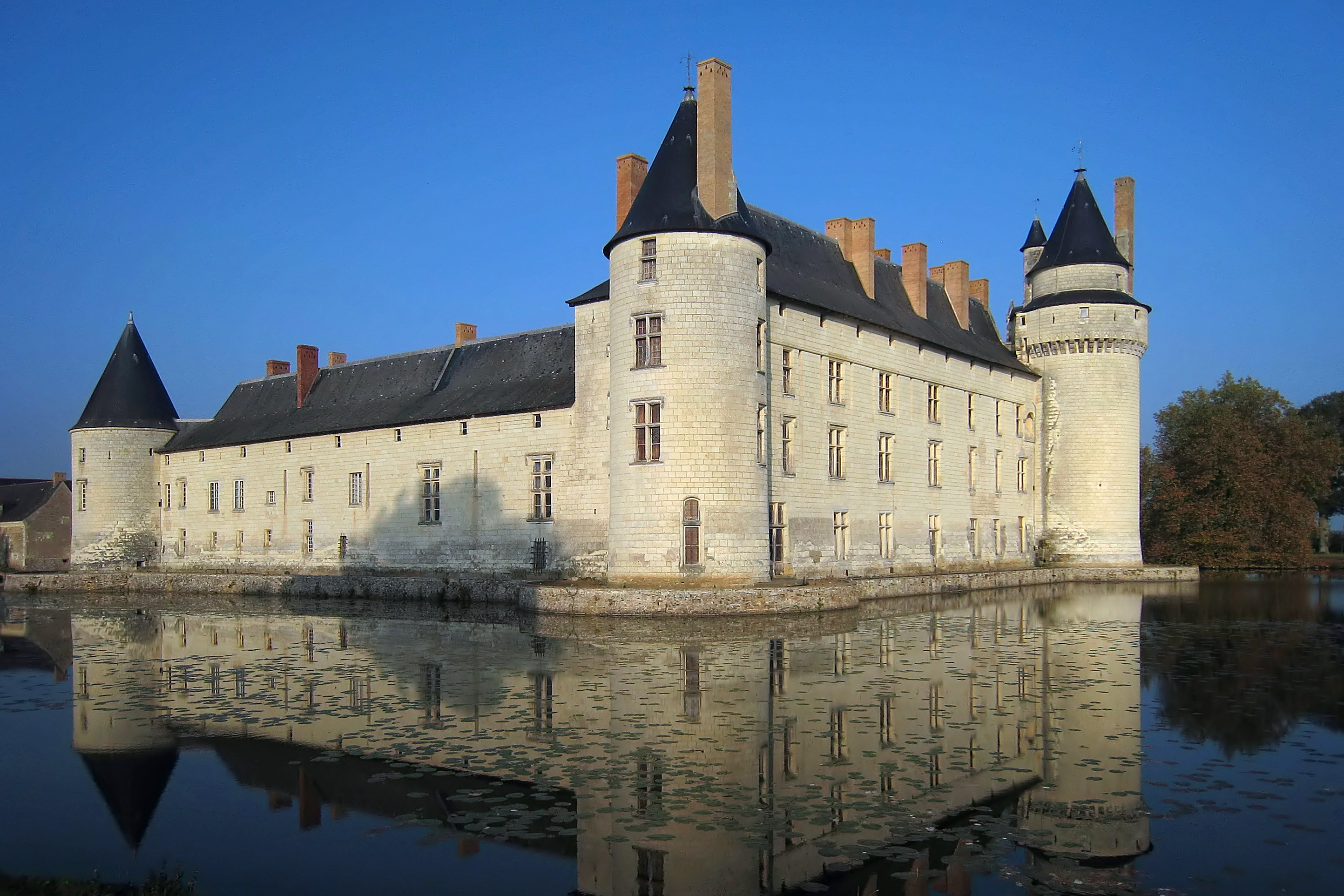 Castle Le Plessis-Bourré, located near the village of Écuillé in Maine-et-Loire département, France.